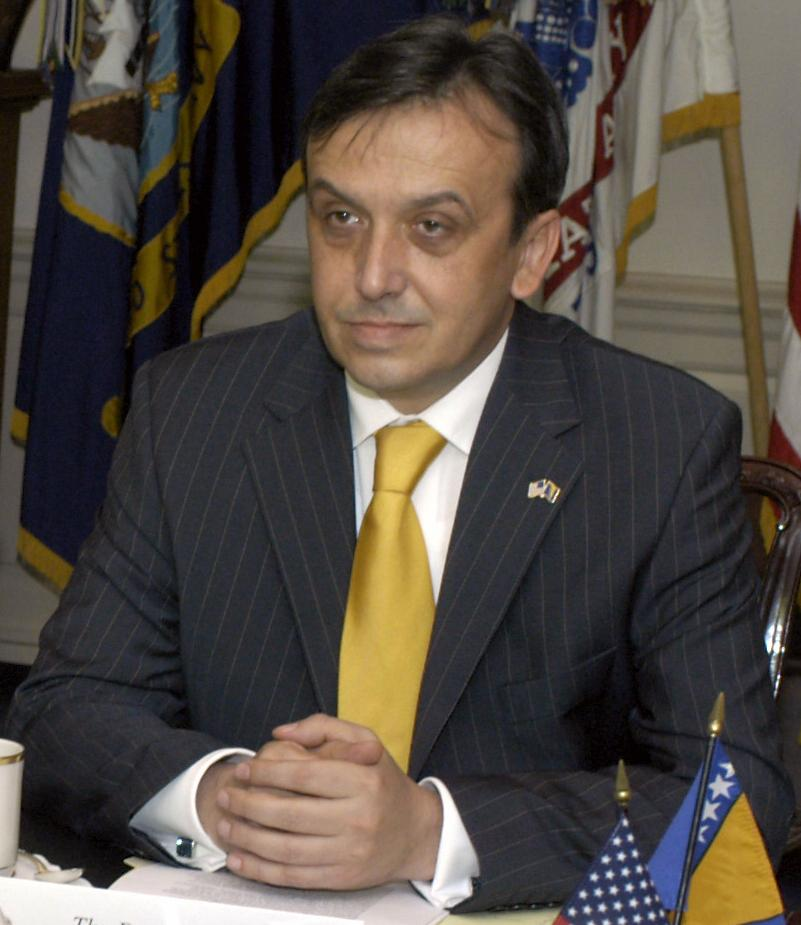 Chairman of the Council of Ministers of Bosnia and Herzegovina Adnan Terzic